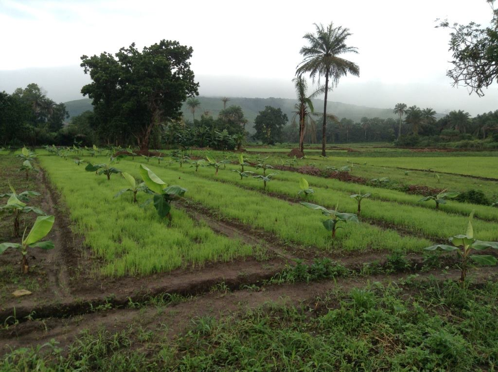 In the Vathaba we believe that every inch of land can add value. And every plantation should be beautiful, relaxing and productive. This is an image of food from Guinea